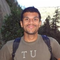 Fahd Ananta in 2013.